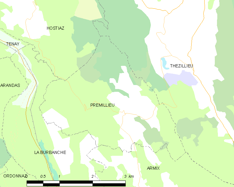 Map of French commune: Prémillieu Map commune FR insee code 01311.png